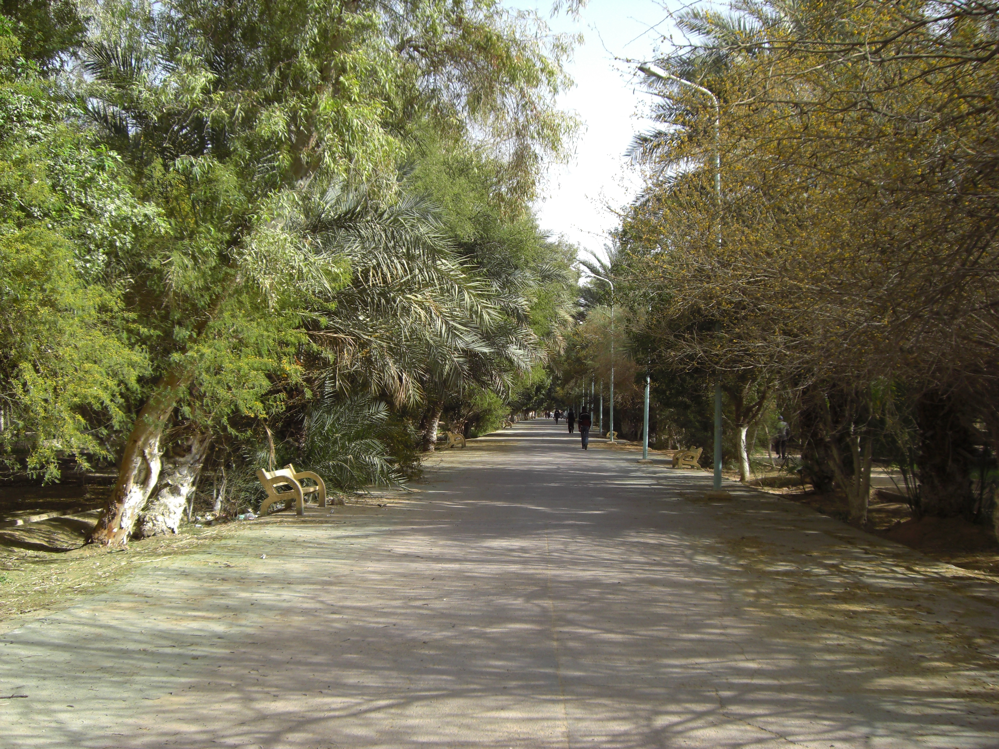 Baylek Garden park — in Biskra, Algeria.